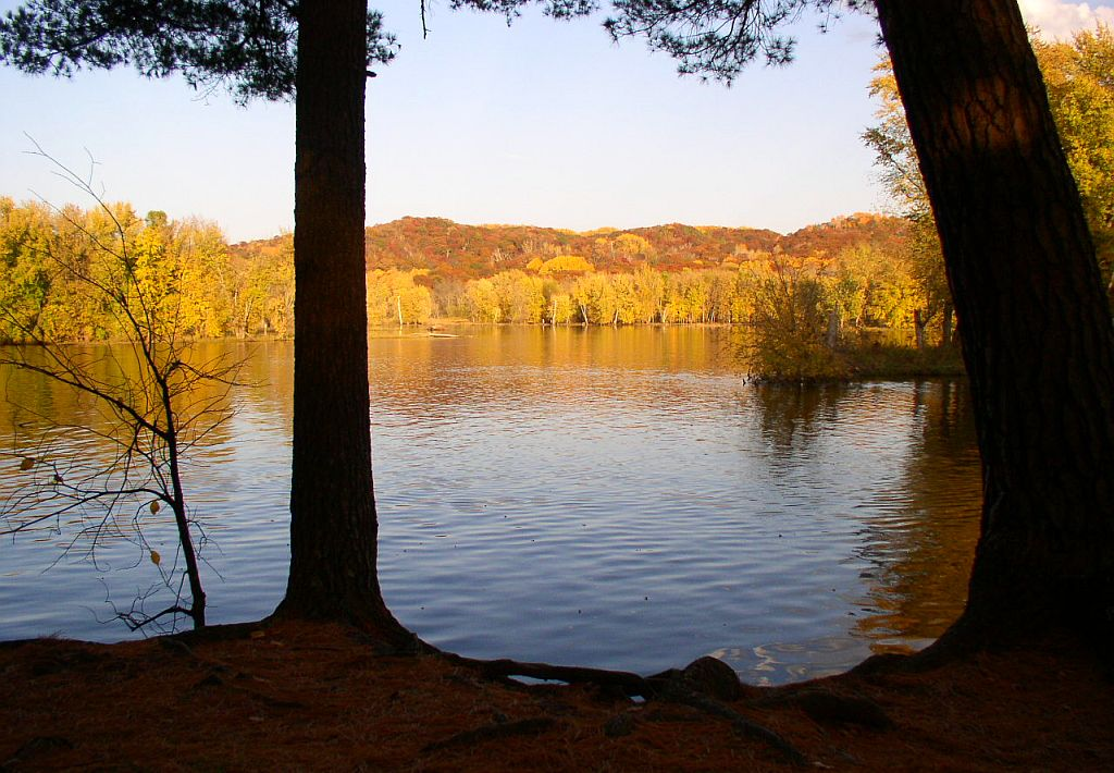 St. Croix River from Riverside Trail, William O'Brien State Park, Minnesota, USA